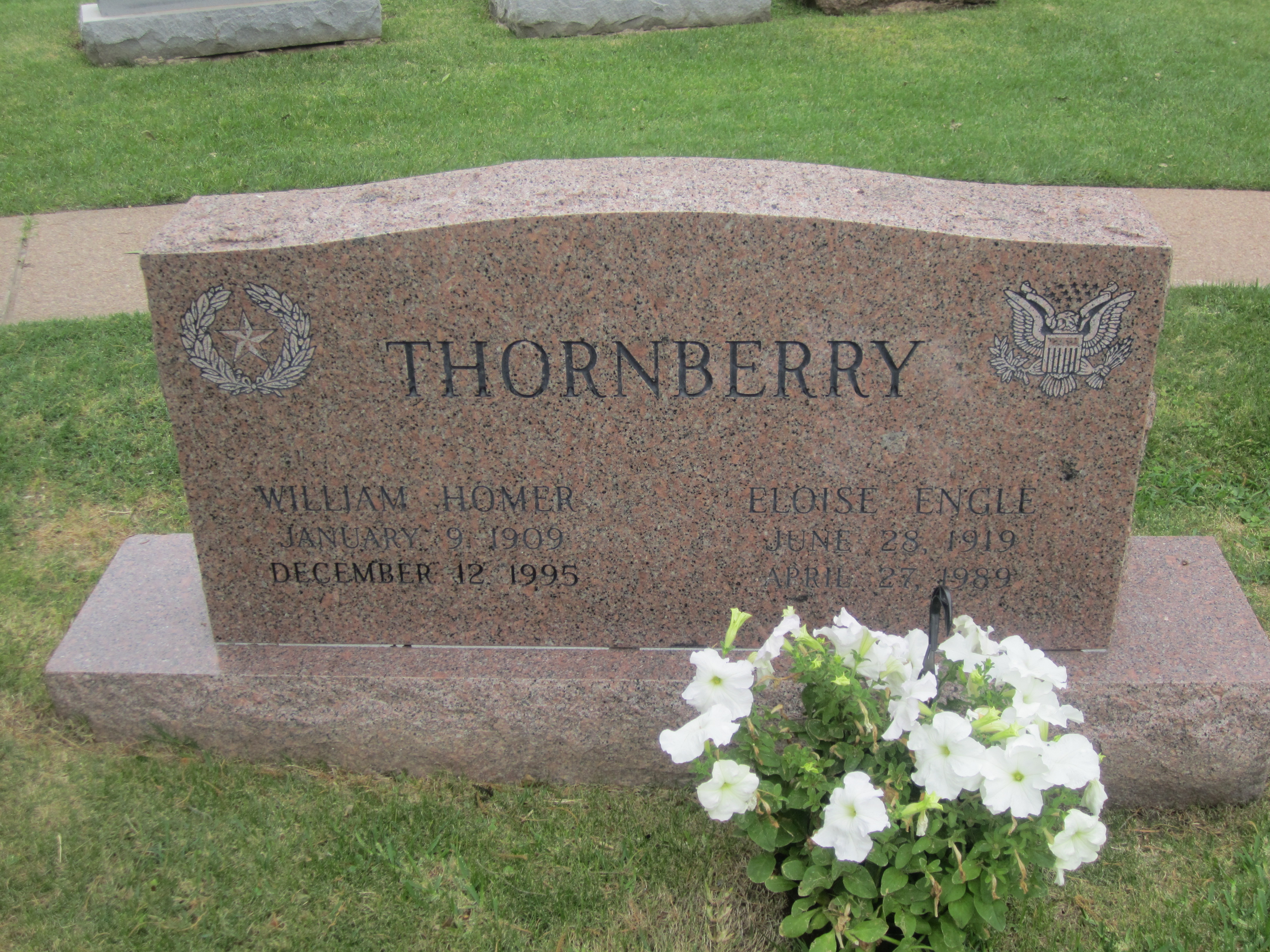 I took photo with Canon camera at TX State Cemetery in Austin: monument of Rep. Homer Thornberry.